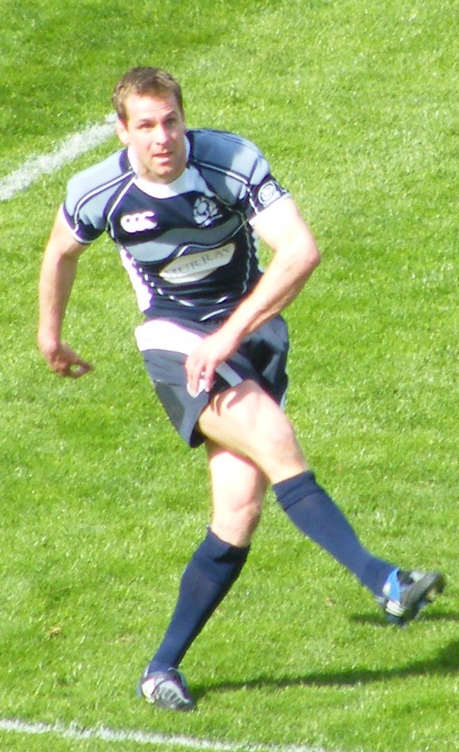 Chris Paterson kicking a penalty during RBS Six Nations 2008 Italy vs Scotland rugby game, Rome, Stadio Flaminio, 15th March 2008.